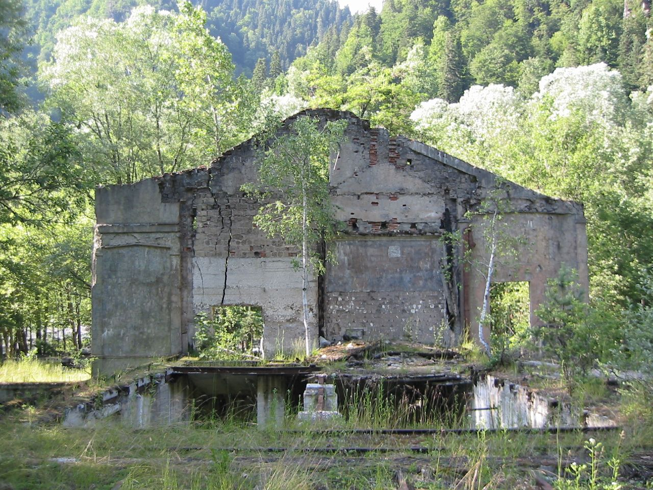 Ruins of Joseph Stalin's summer-house by the lake Ritsa.